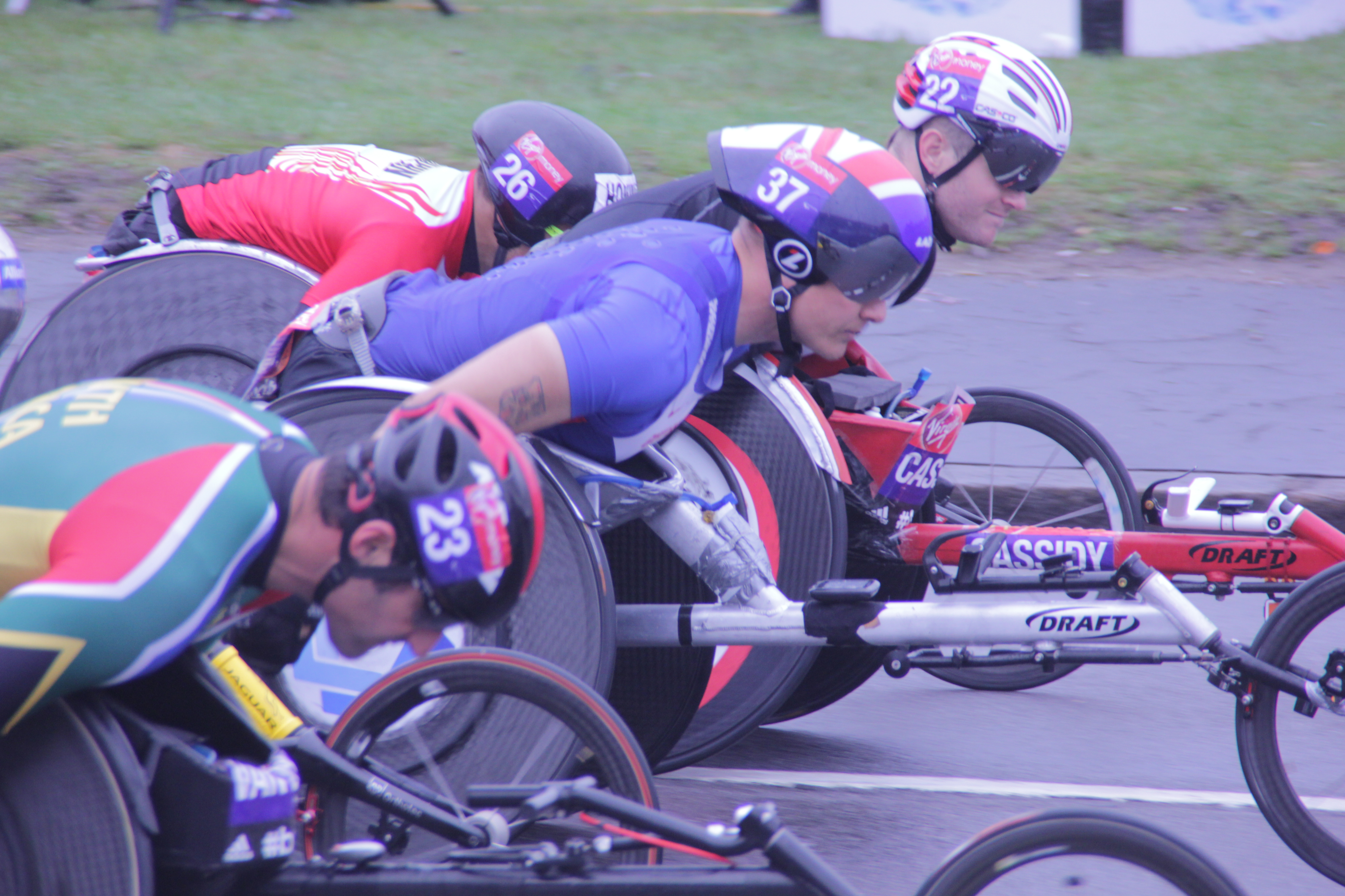 London Marathon 2015, Blackheath start scenes, Sunday 26 April 2015, David Weir (37) 2nd, Josh Cassidy (22), Ernst Van Dyk (23) 5th, Kota Hokinoue (26) 7th.